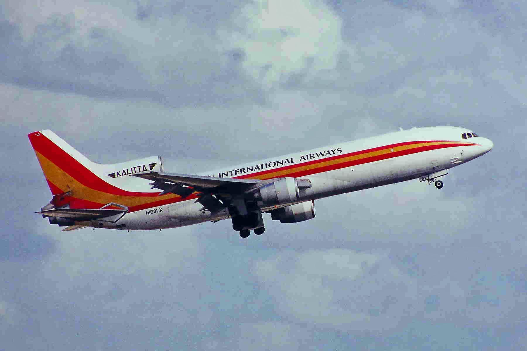 A picture of an airplane